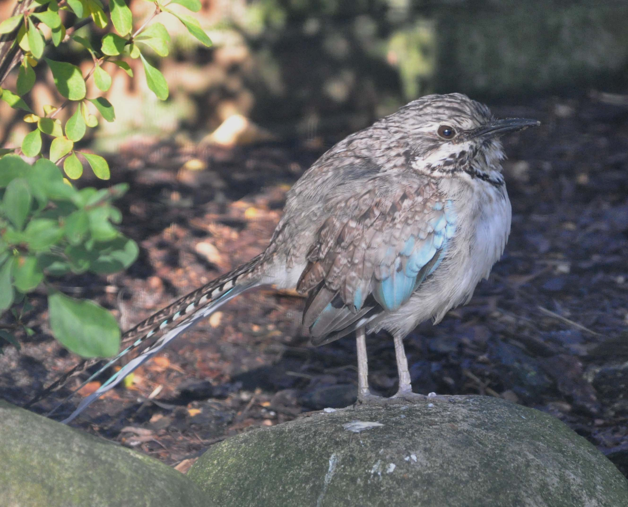 Long-tailed Ground-roller (Uratelornis chimaera) in the Walsrode Bird Park, Germany.